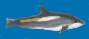 Lagenorhynchus acutus - Atlantic White-sided Dolphin - Dibujo digital propio